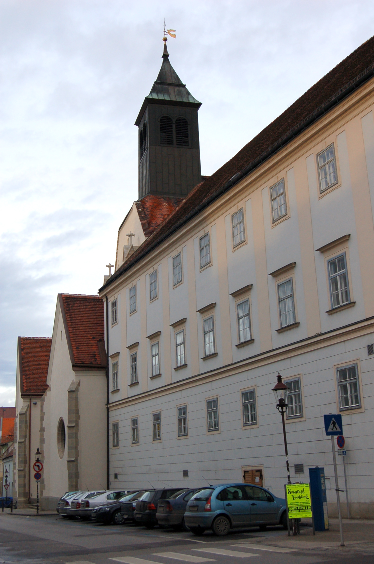 Neukloster Cistercian Abbey, Wiener Neustadt, Lower Austria